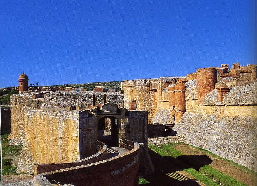 CASTLE OF SALSES in the Roussillon s.xv